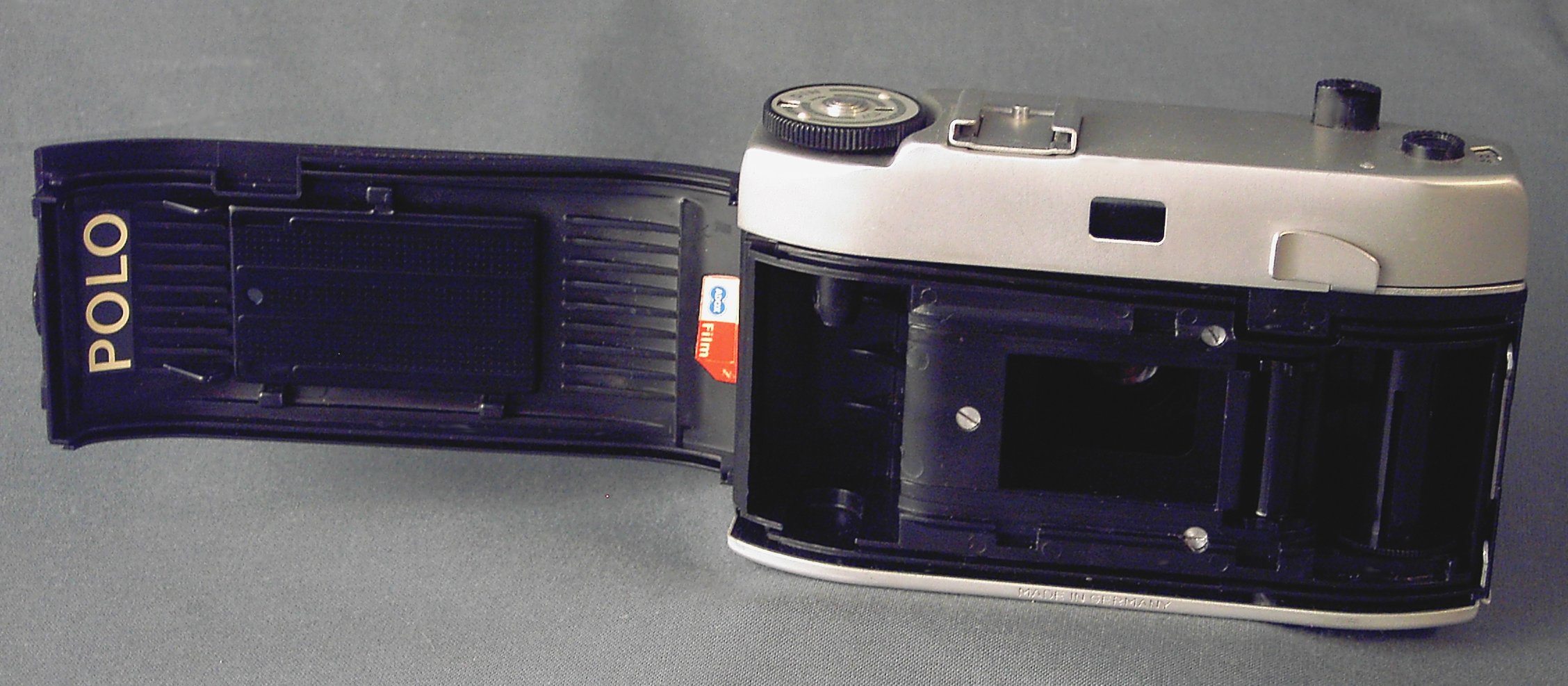 The ADOX Polo (1960-63), 'inside' look